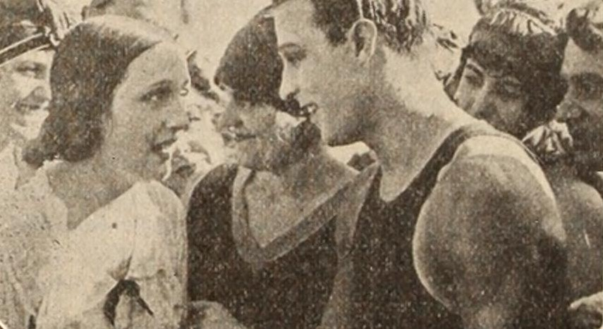 Still from A Society Sensation, a 1918 film starring Carmel Myers and Rudolph Valentino which was re-released in 1924 and edited down to two reels.